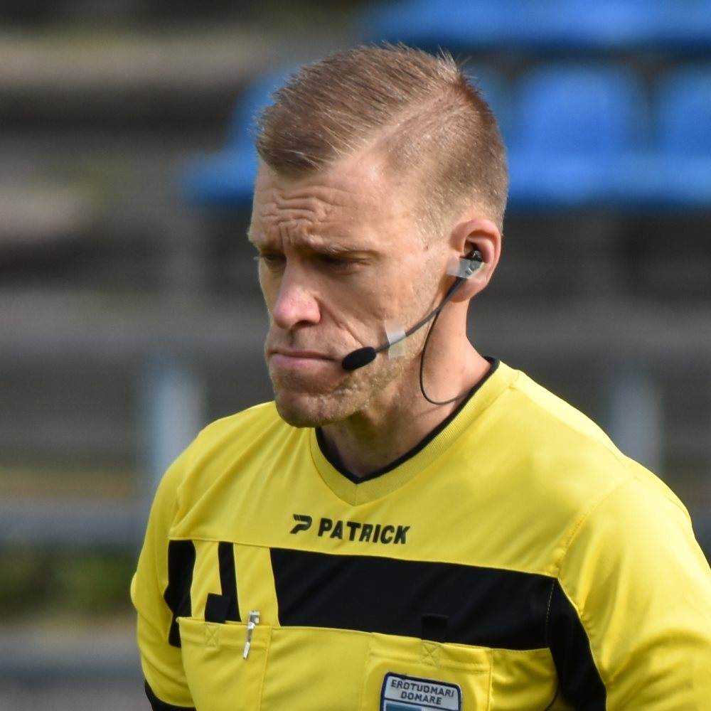 Football referee Marko Grönholm